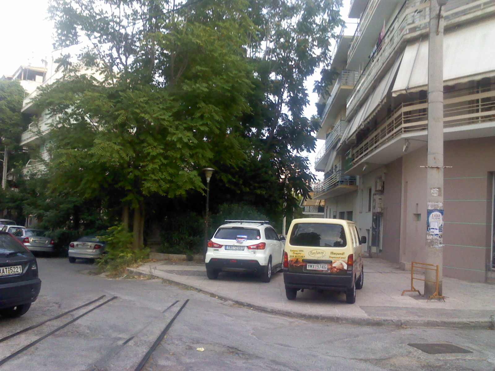 Neighborhood Kopi